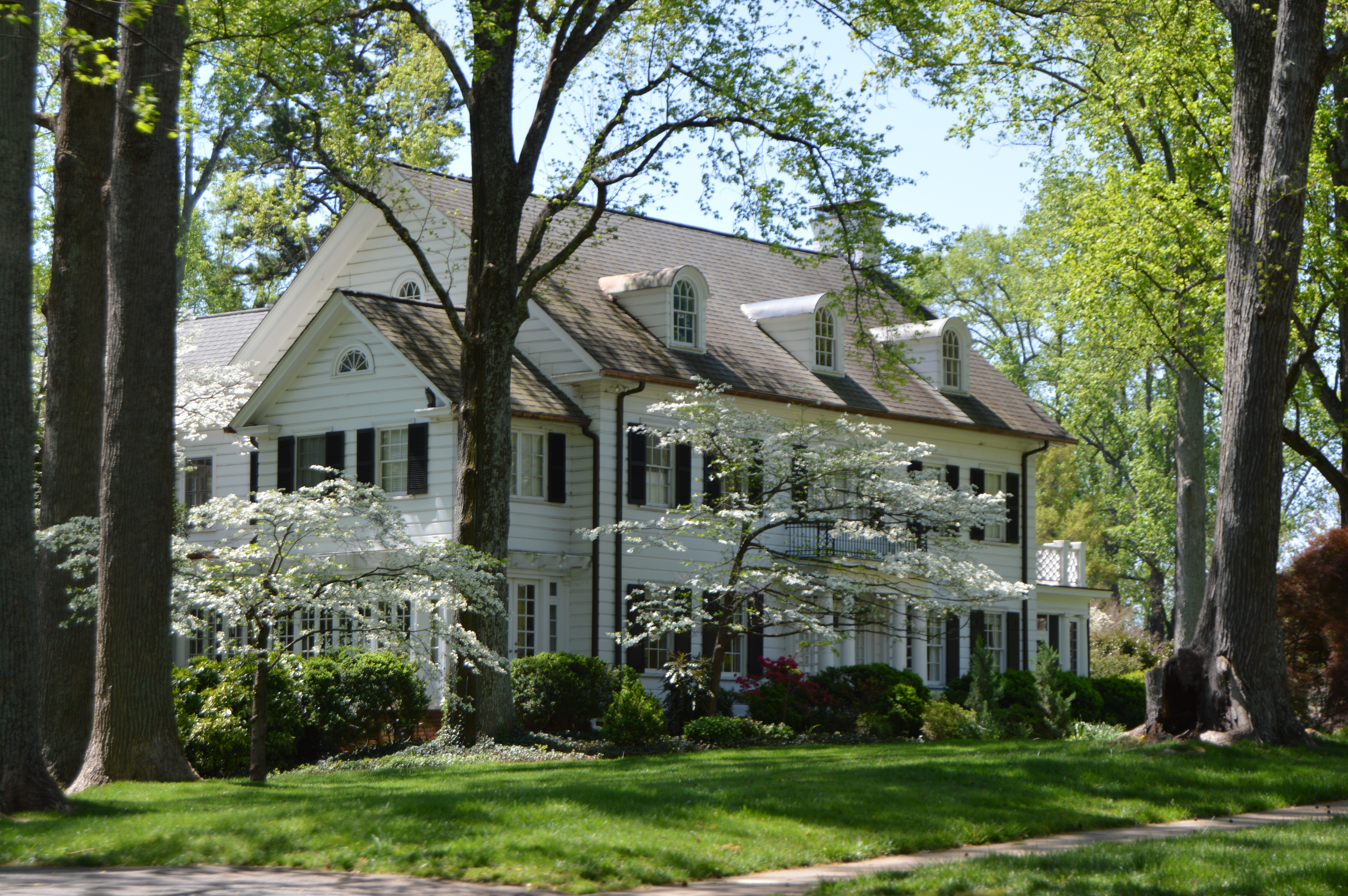 A house on the southeastern corner of the intersection of Meadowbrook Terrace and Sunset Drive in Greensboro, North Carolina, United States. This block is part of the Sunset Hills Historic District, a historic district that is listed on the National Register of Historic Places.